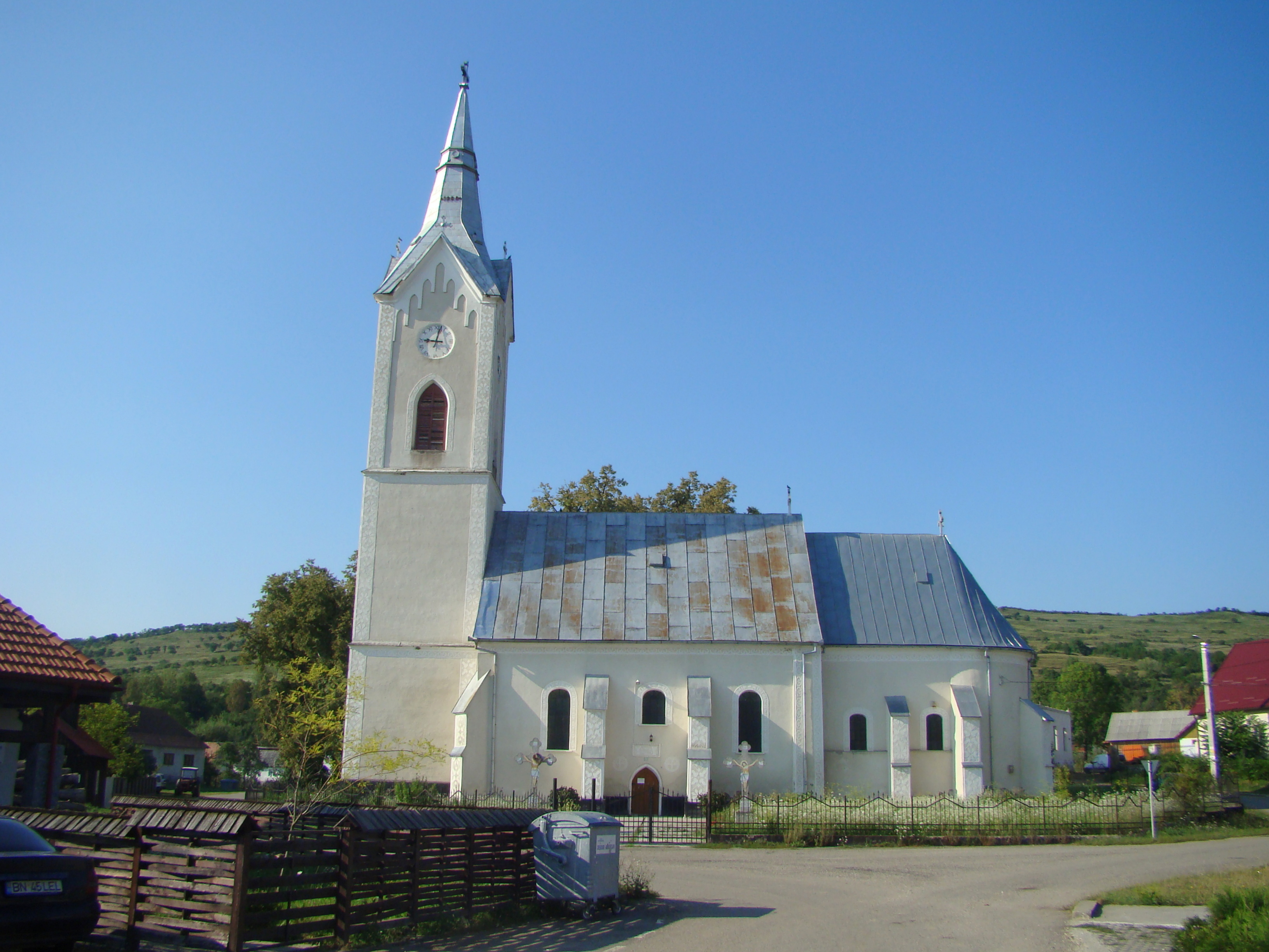 Lutheran church in Dumitrița, Bistrița-Năsăud county, Romania